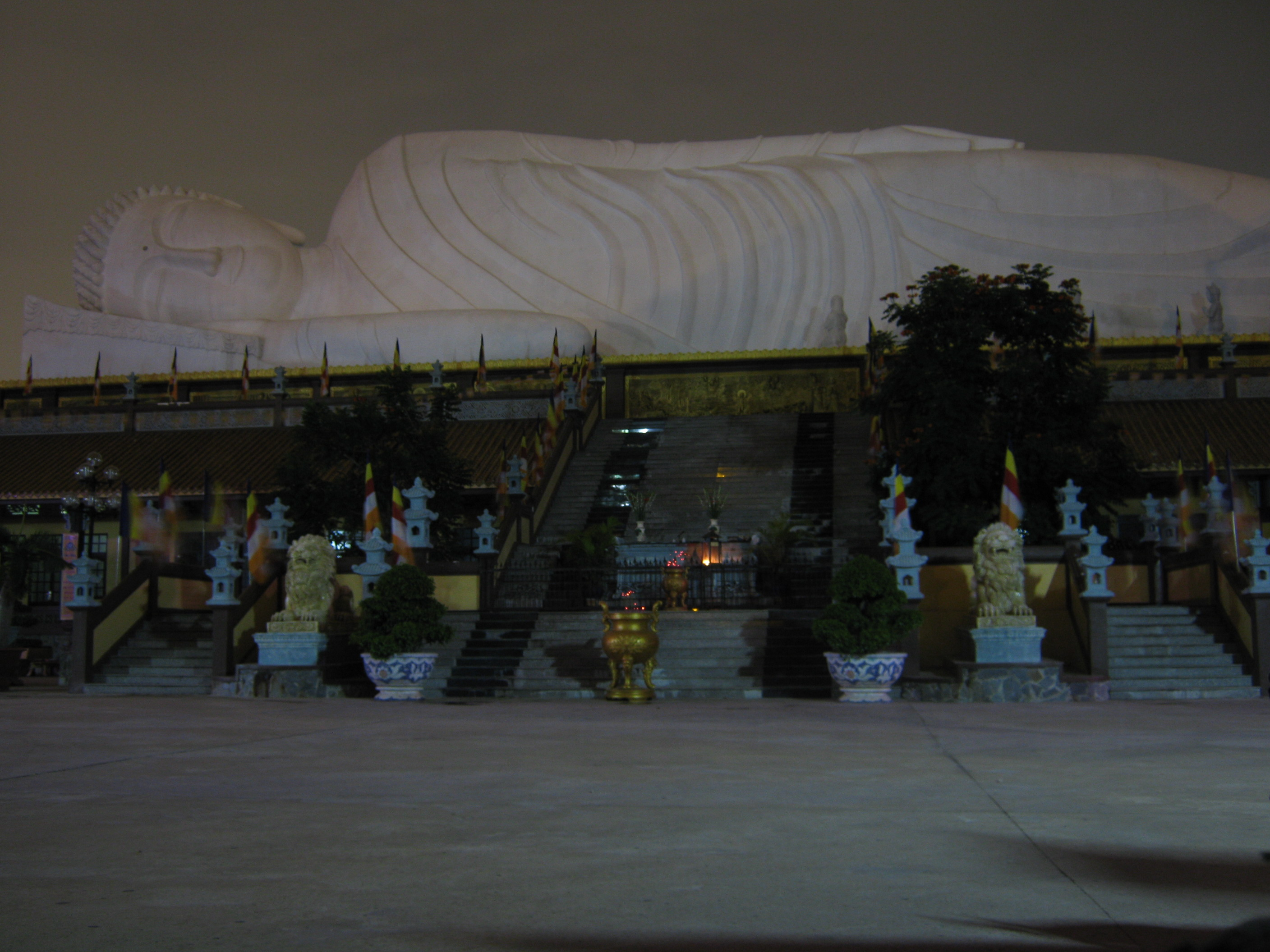 Night view of Buddha statue from Hoi Khanh temple (Binh Duong, Vietnam)